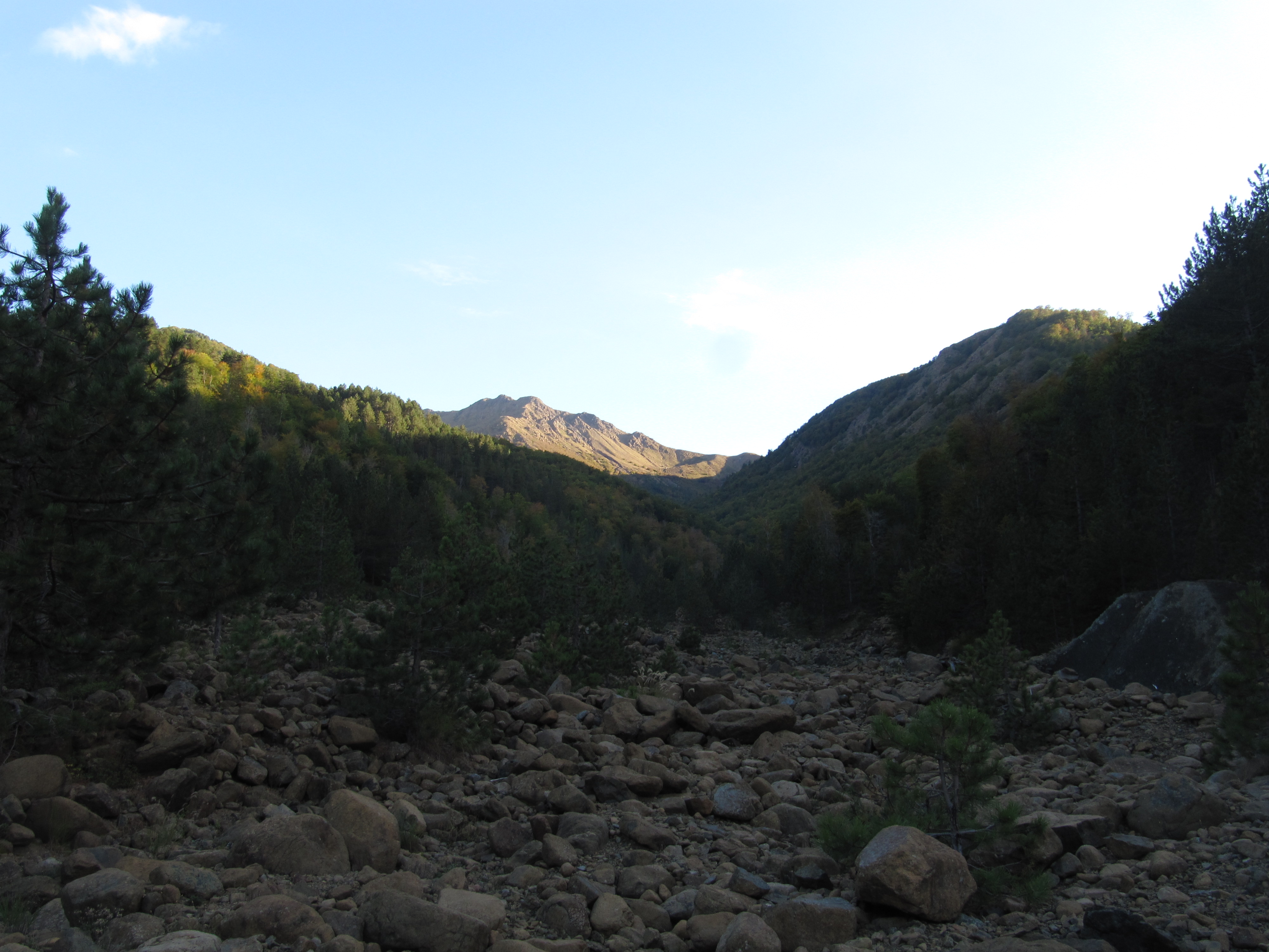 Shebenik Mountain from the village of Qarrishte in the Shebenik Jabllanice National Park, Albania